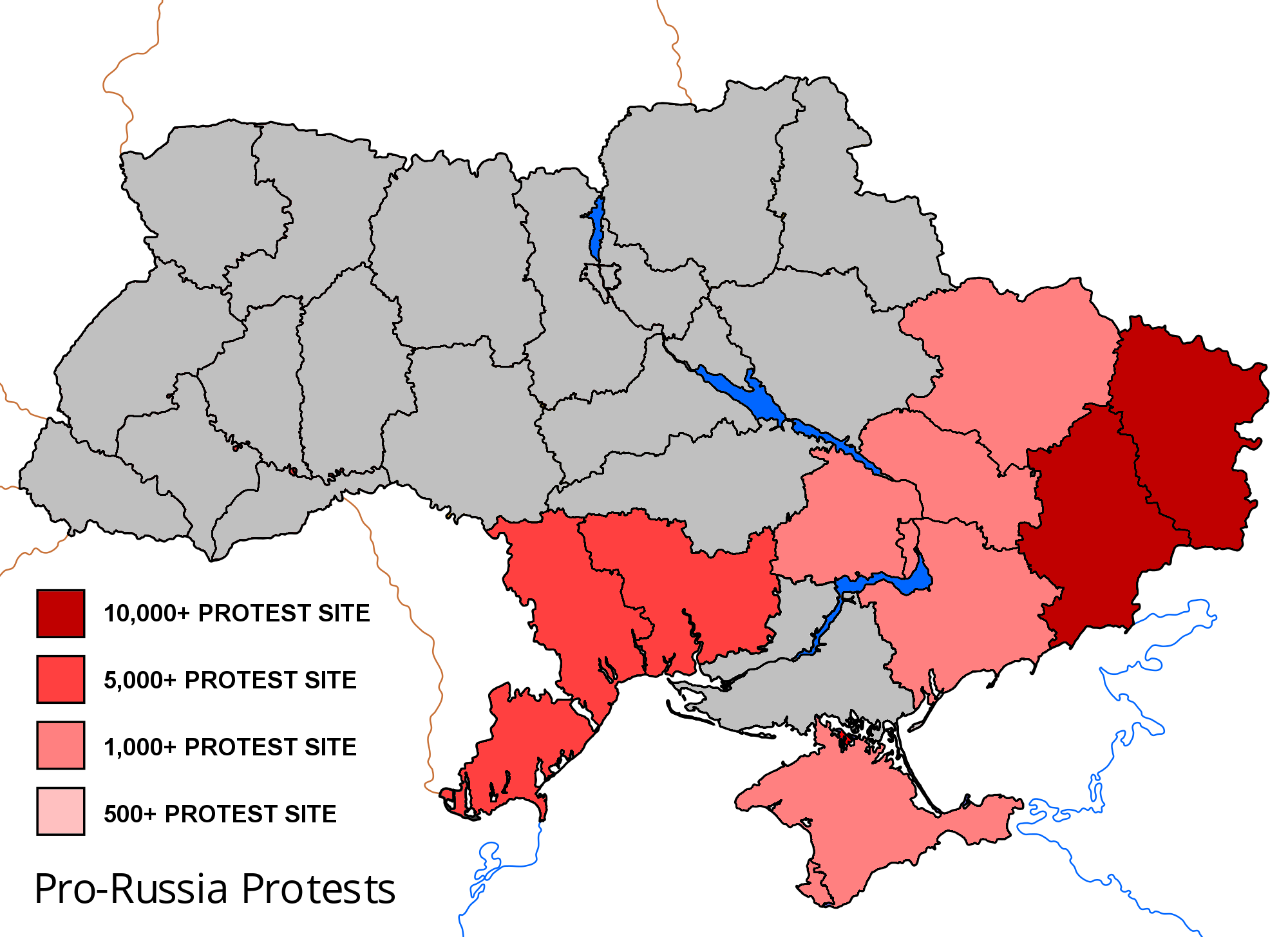 Pro-Russia protests in Ukraine 2014